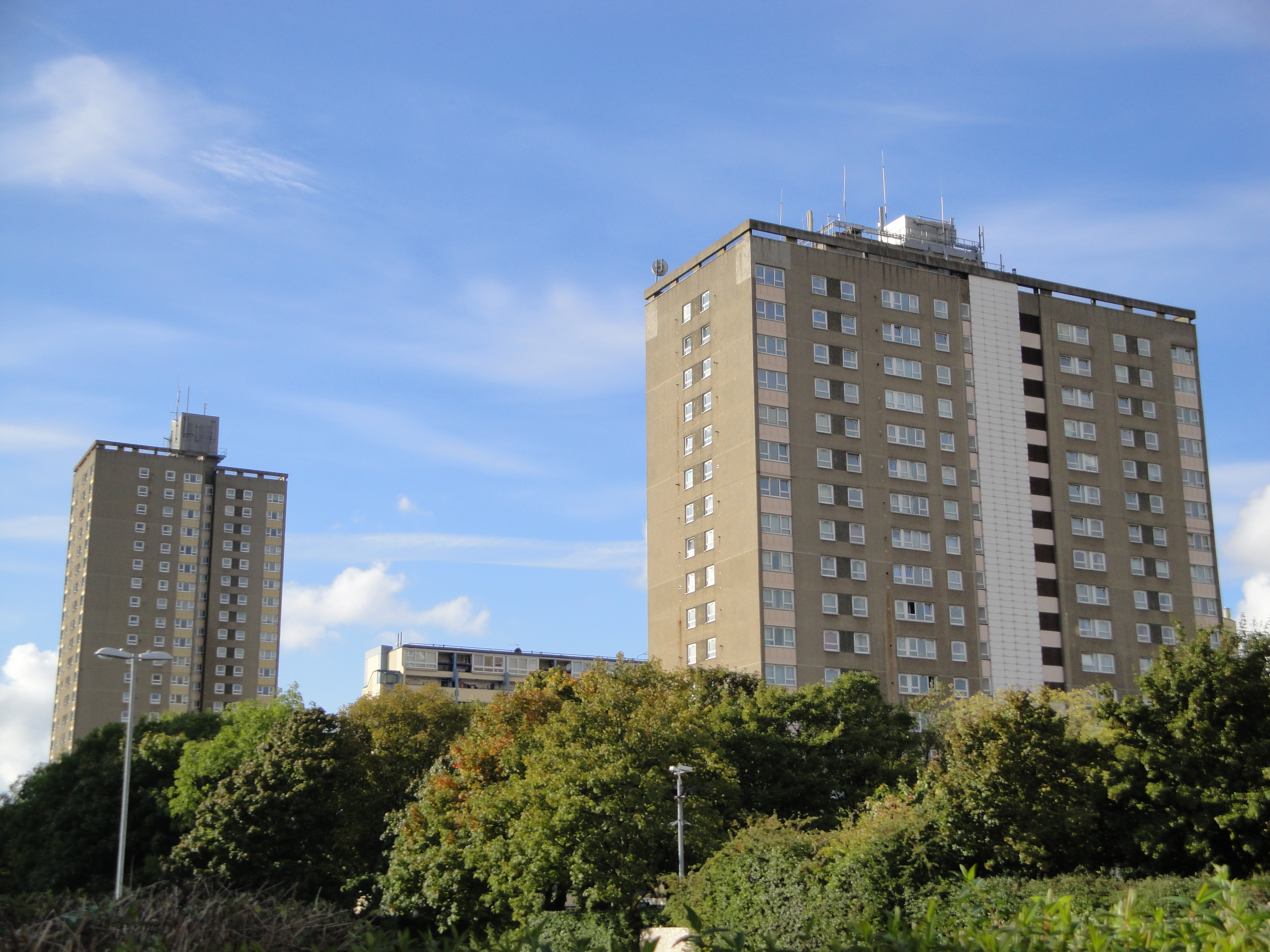 Council apartment buildings in Somerstown, Portsmouth, Hampshire, seen from Winston Churchill Avenue. On the left is Ladywood House. On the right is Arthur Pope House. In the centre, just visible over the trees, is Handsworth House.